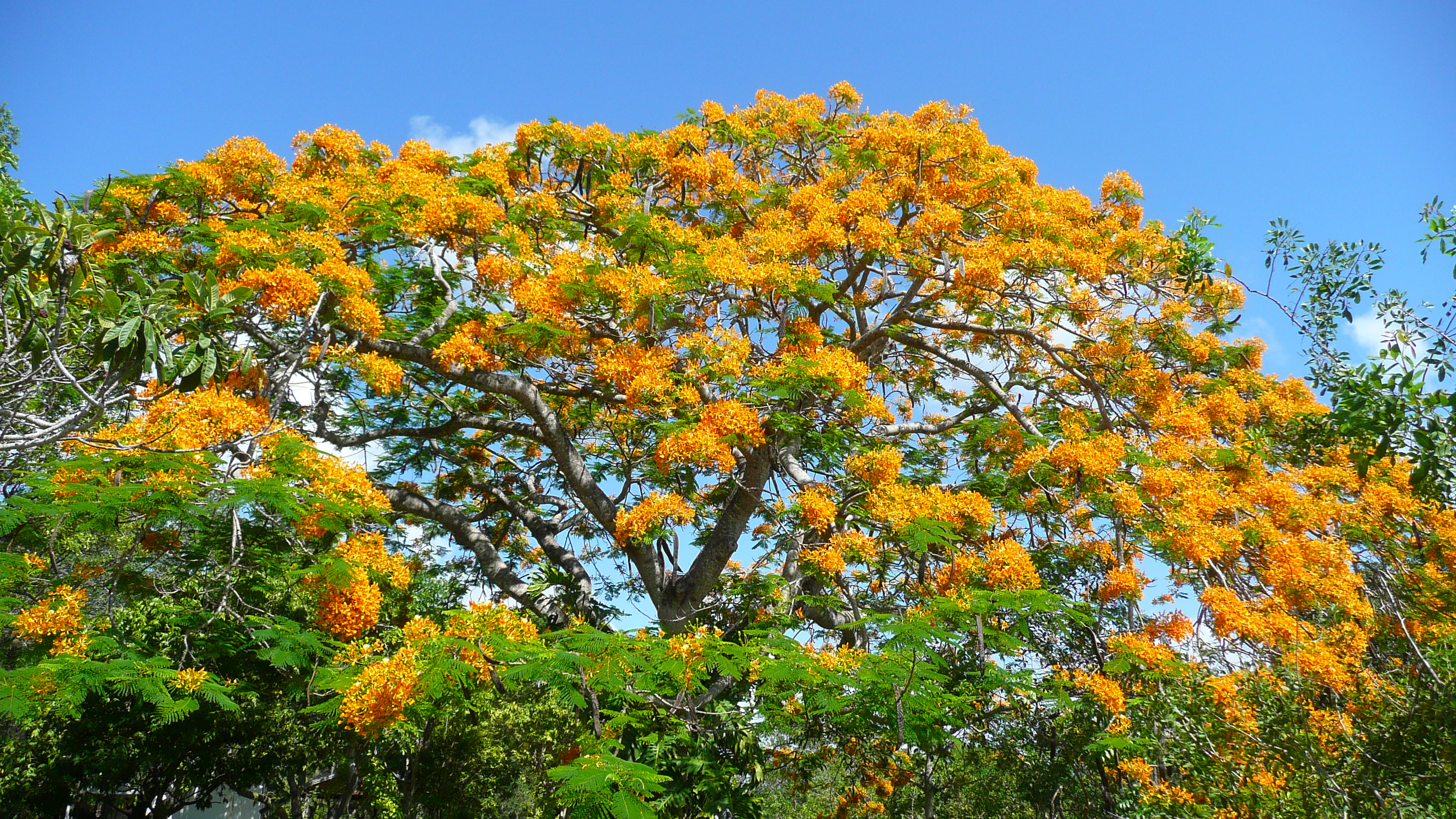 Digital photo taken by Marc Averette. Rare Delonix regia:Yellow Royal poinciana in Coral Gables, Florida, United States.